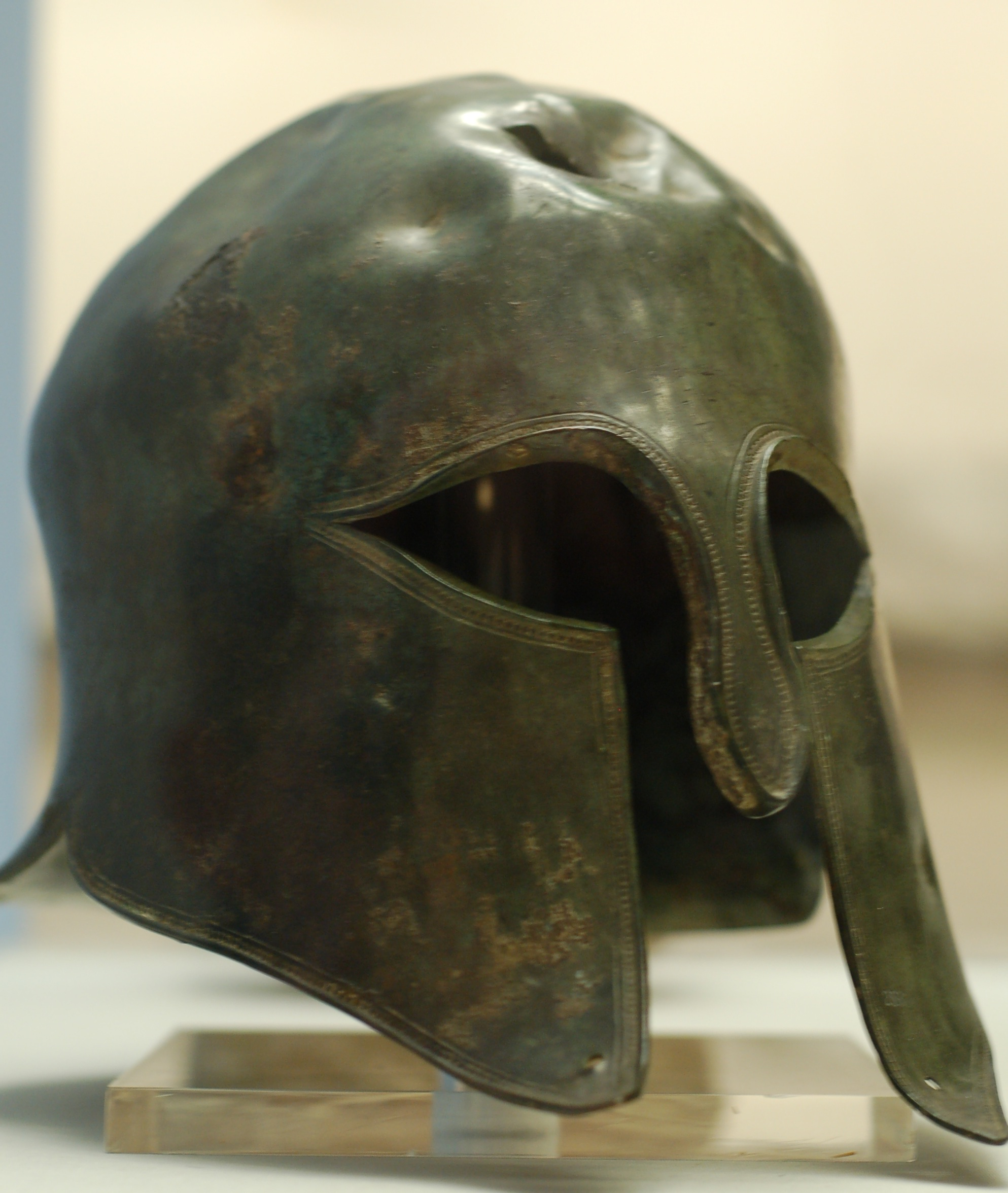 Bronze helmet of Corinthian type, with nail-holes in the top and cheek-pieces which show that it has been a trophy or victory offering. Exhibited at the British Museum